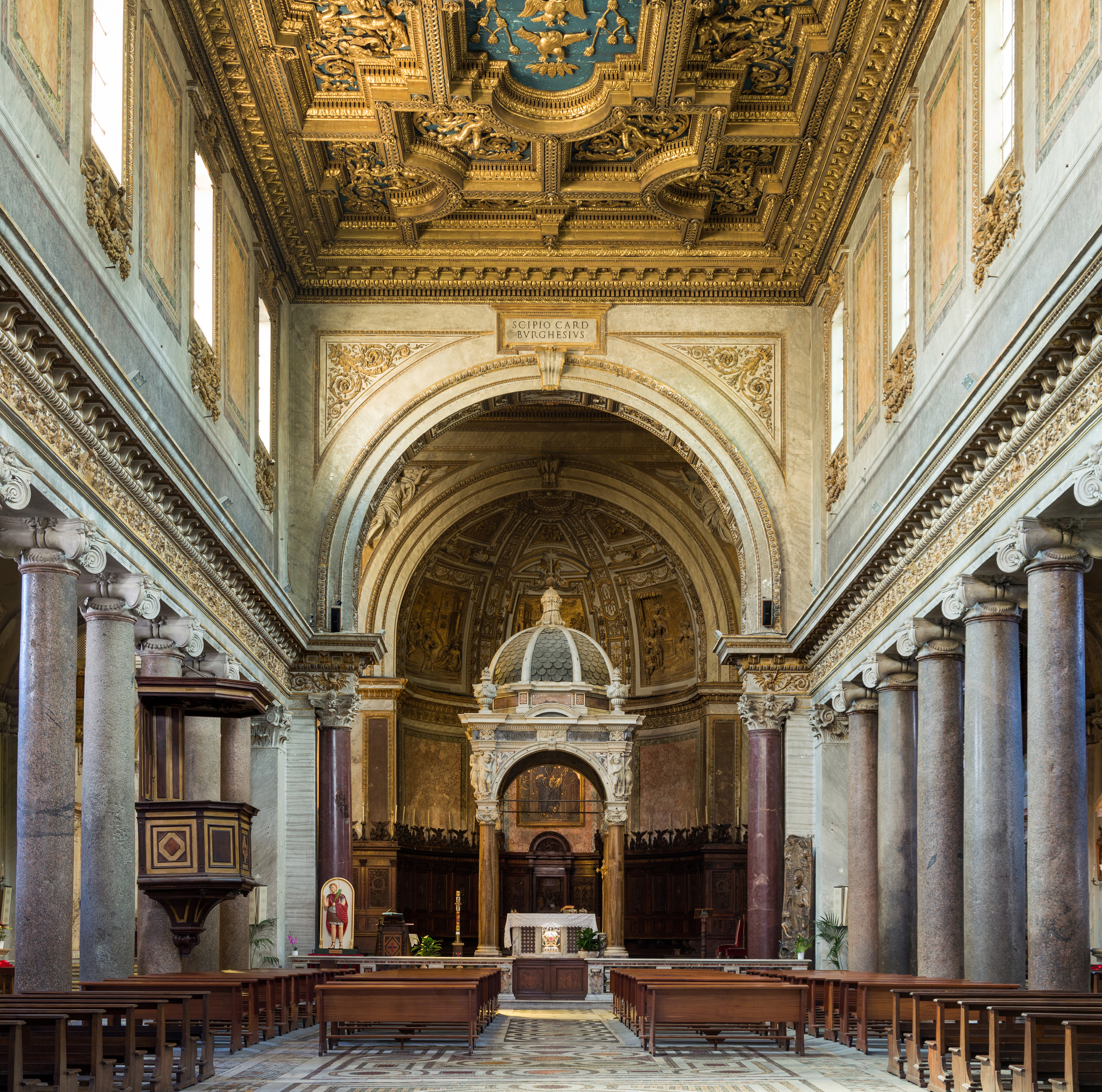 San Crisogono (Rome) - Interior Diliff edit